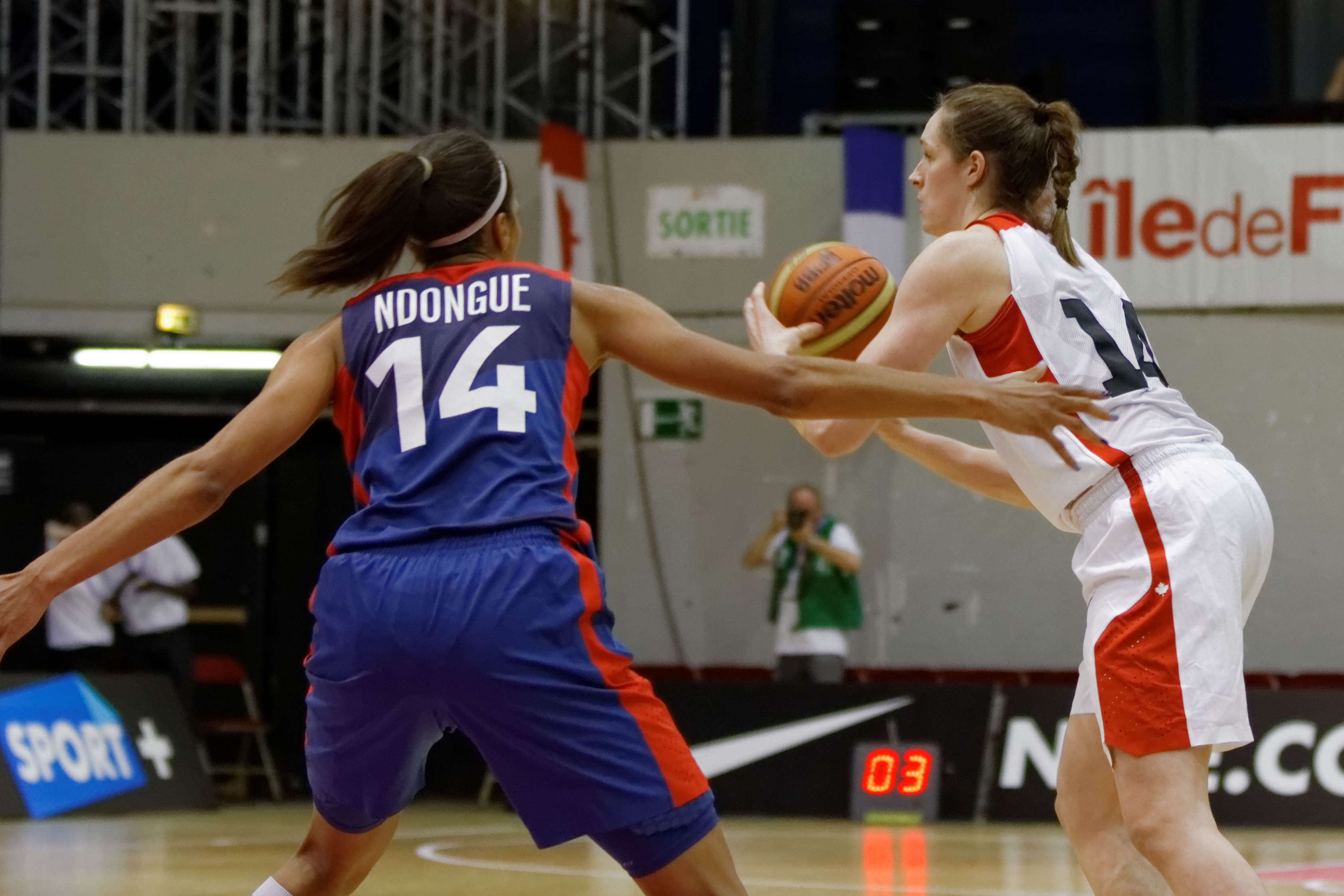 EuroEssonne, France - Canada, 7 June 2013.